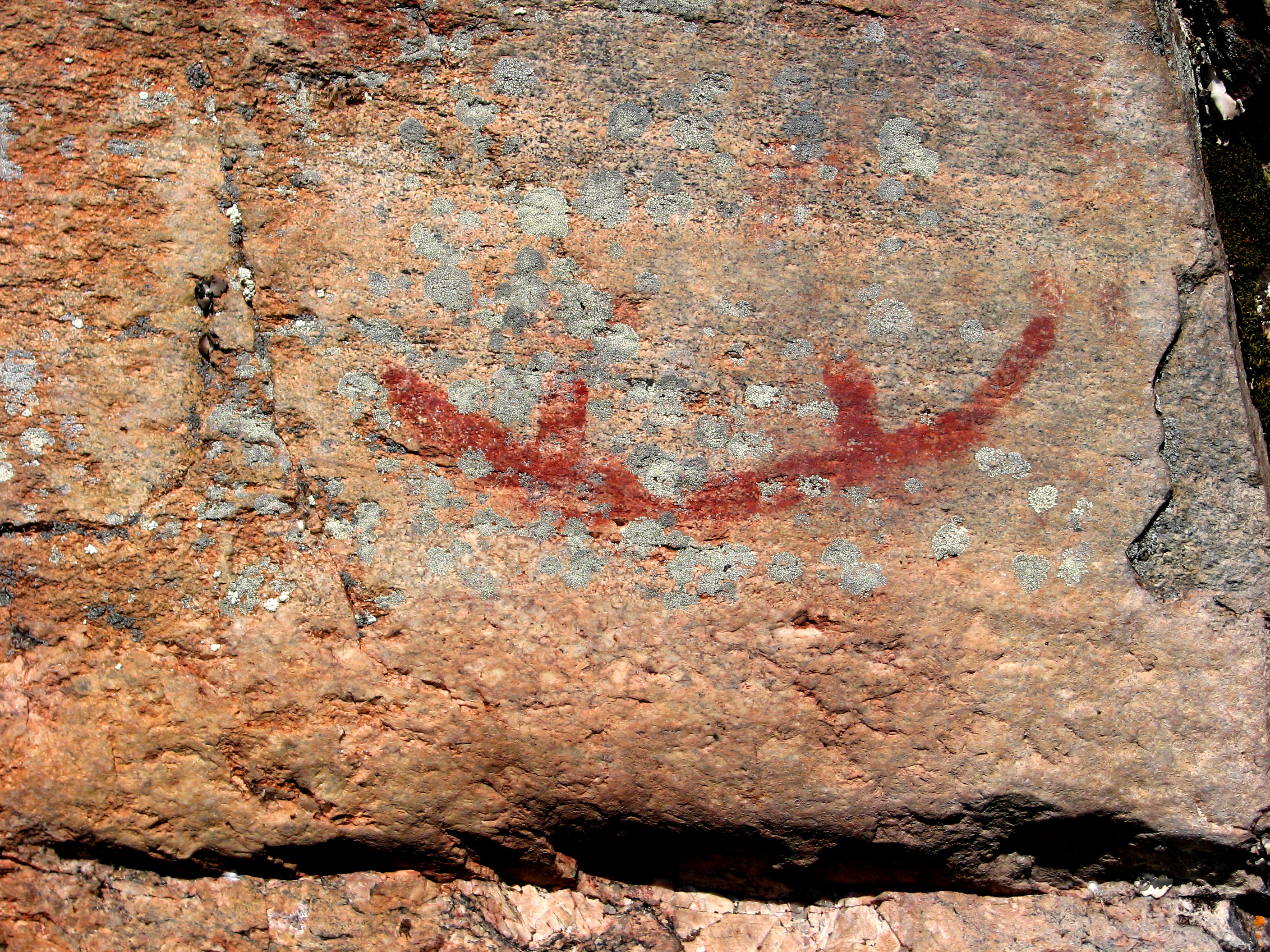 Canoe pictograph, Quetico Provincial Park, Ontario, Canada